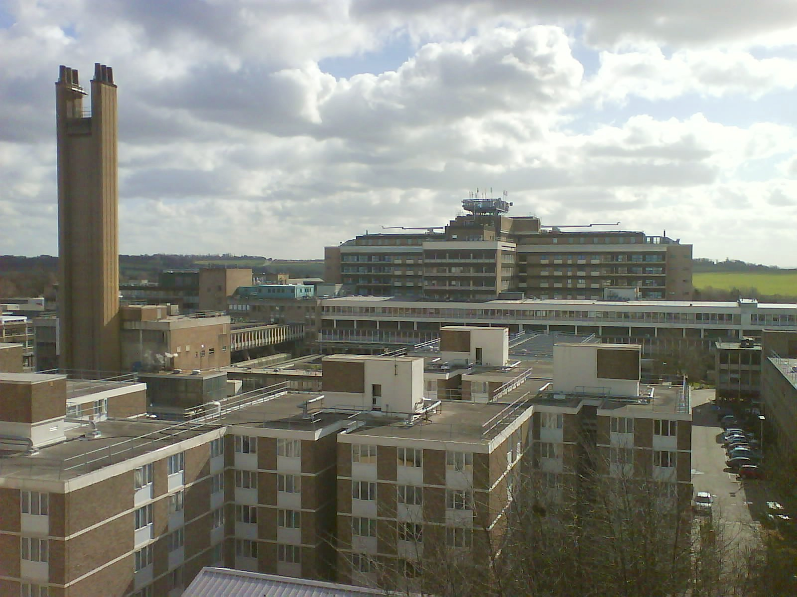 Taken by the user, from the top of the multistory car park at Addenbrooke's Hospital.